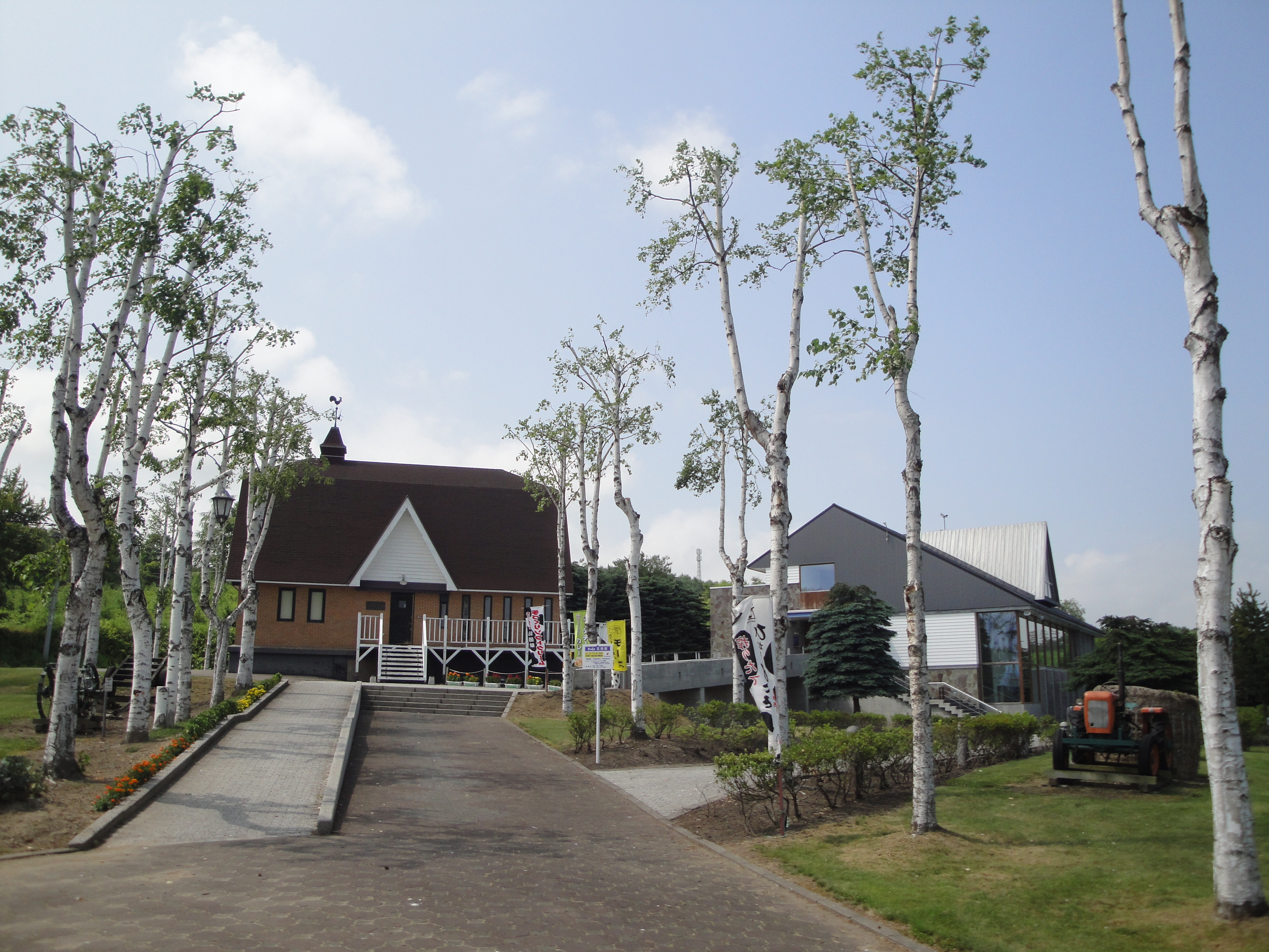 Higashimokoto Nyurakukan (Right) and Higashimokoto Dairy Processing Institute (Left)